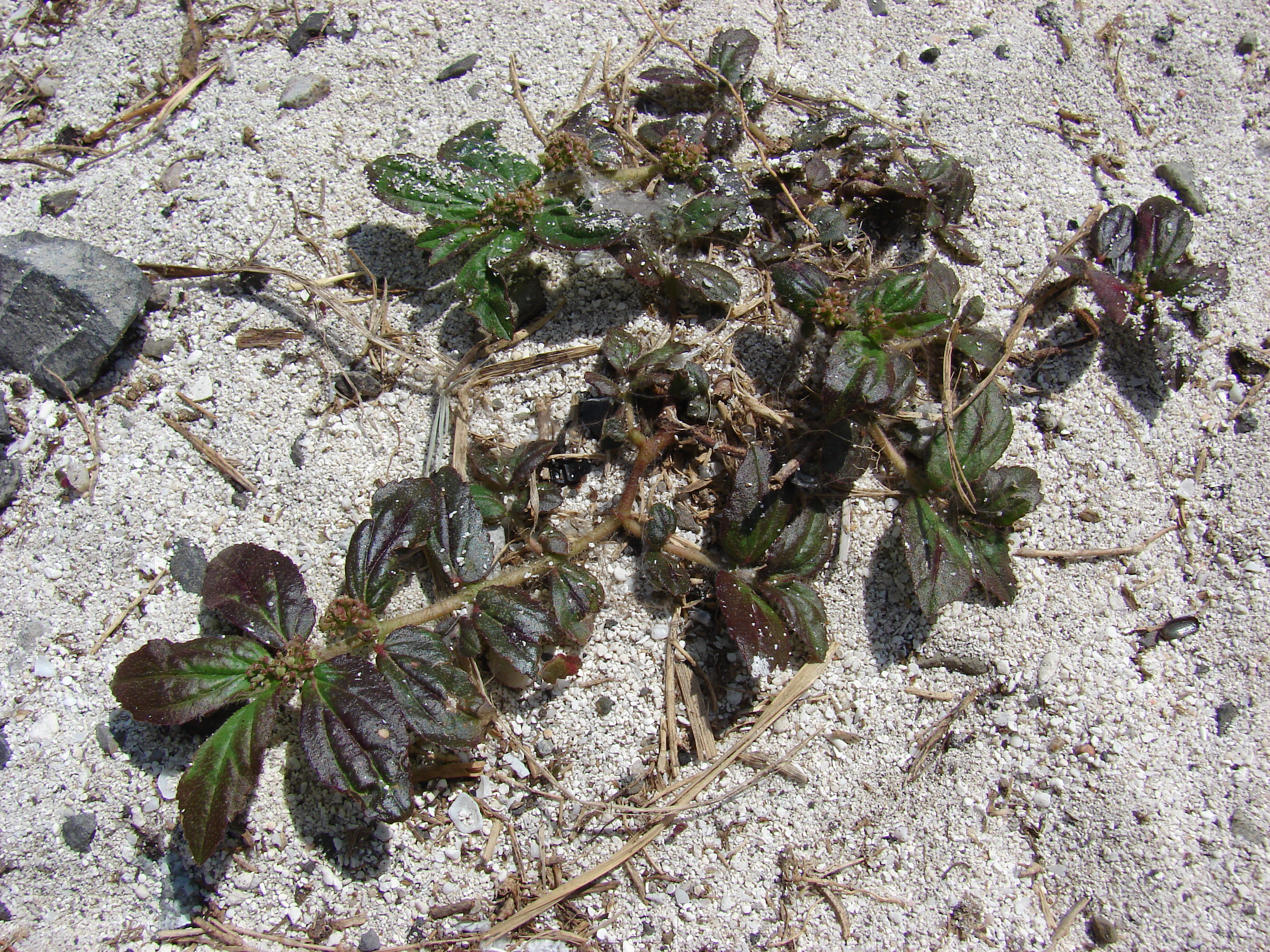 Chamaesyce hirta (habit). Location: Midway Atoll, Bravo barracks Sand Island